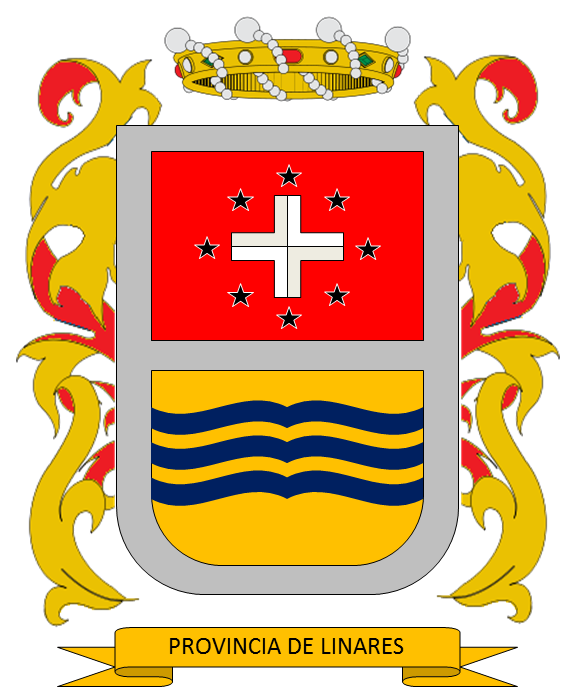 Provincial Coat of Linares